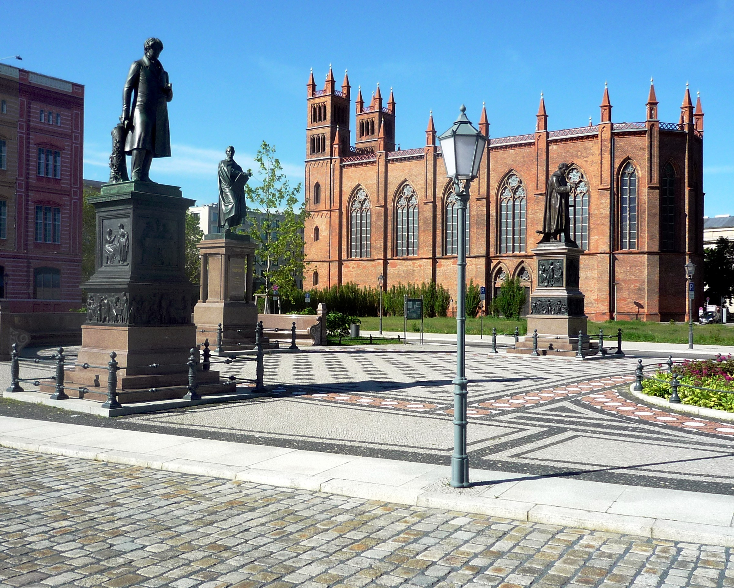 The "Schinkelplatz" in Berlin-Mitte. View to "Friedrichswerdersche Kirche" (Architect: Karl Friedrich Schinkel).